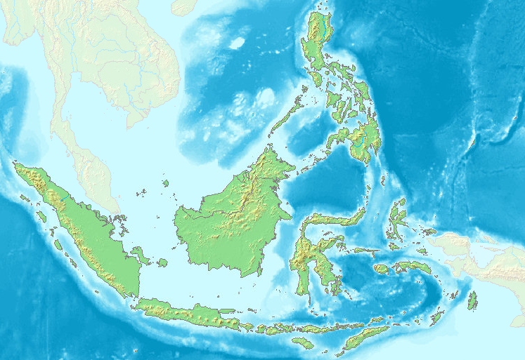 Malay Archipelago